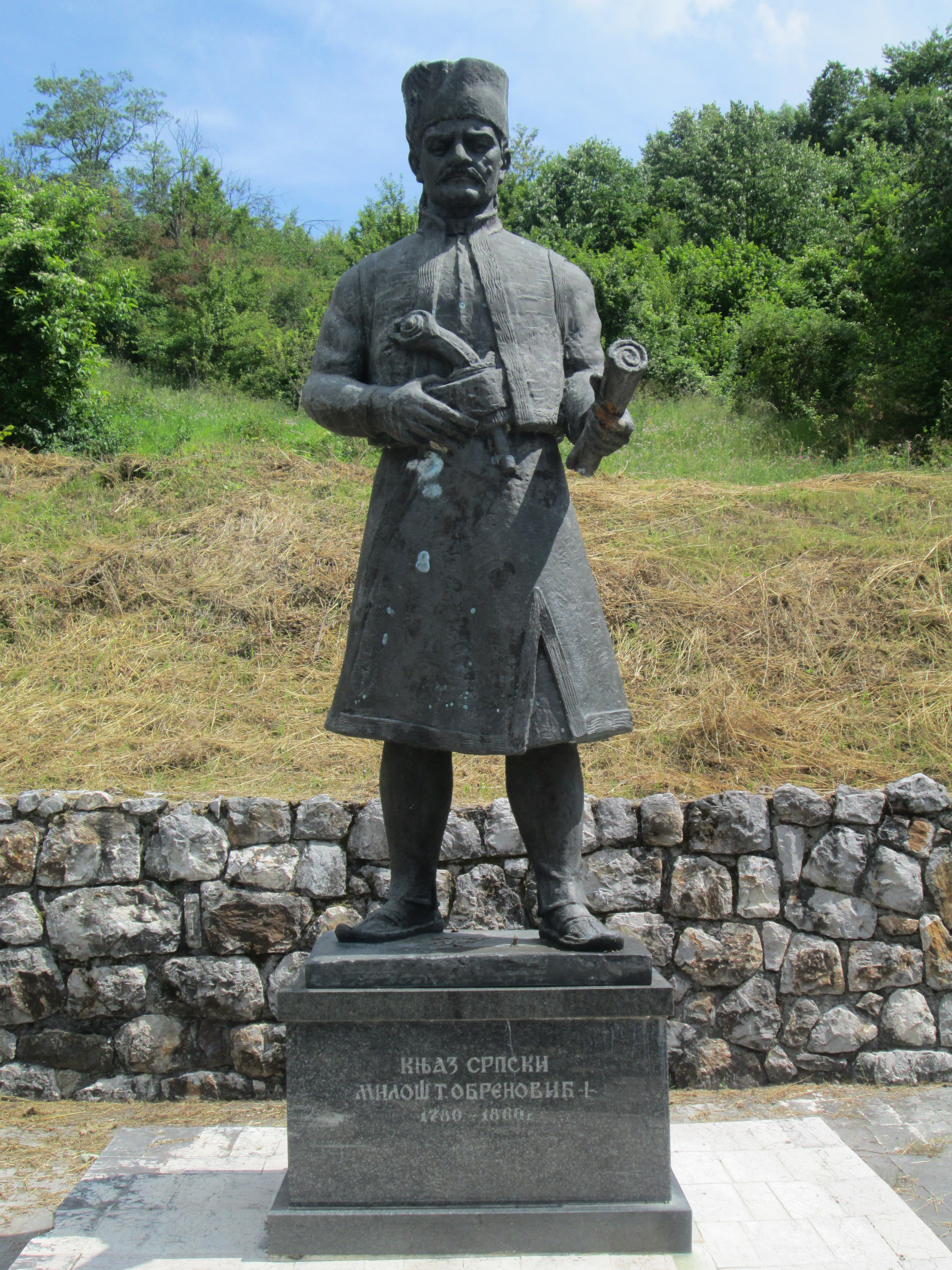 Monument to the Miloš Obrenović Prince of Serbia, Gornja Dobrinja Српски (ћирилица): Споменик кнезу Милошу Обреновићу, Горња Добриња